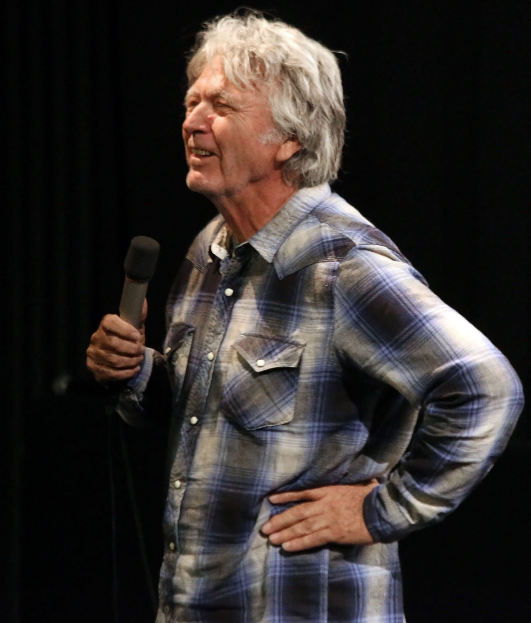 James Benning presenting Easy Rider (2012) at Vienna International Film Festival 2012 (Austrian Film Museum).